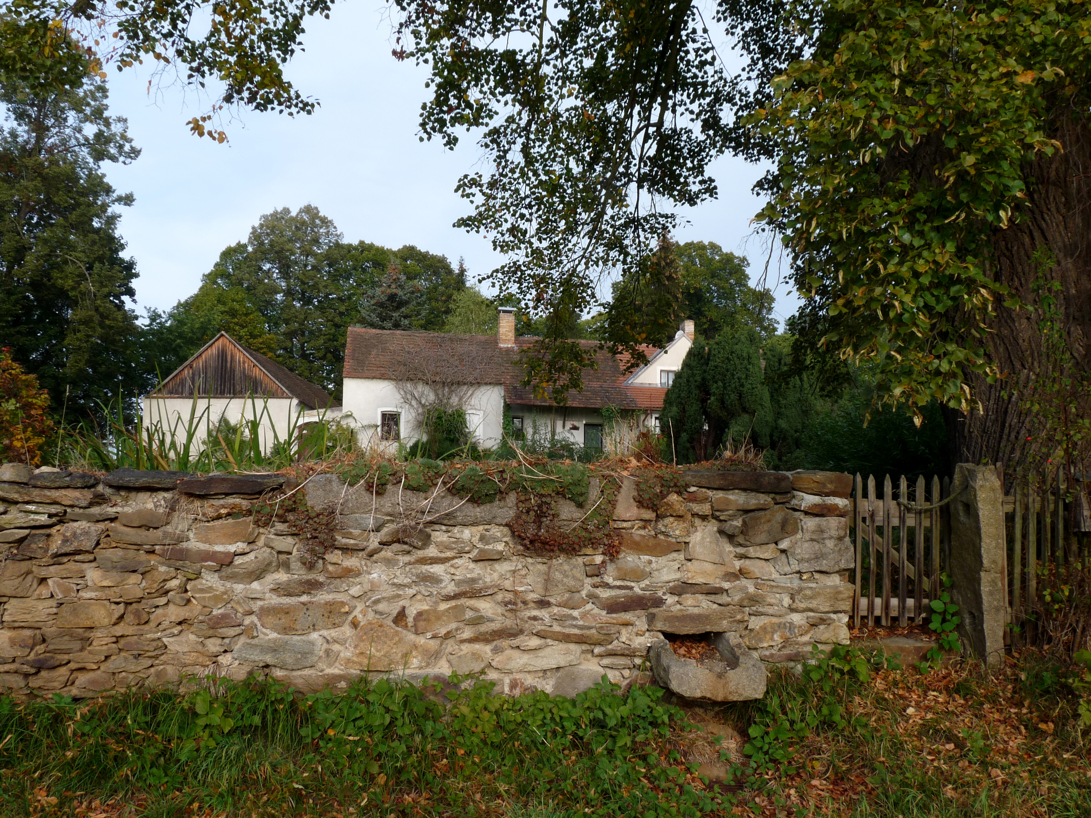 House No 4 in the village of Chodeč, Český Krumlov District, South Bohemian Region, Czech Republic.